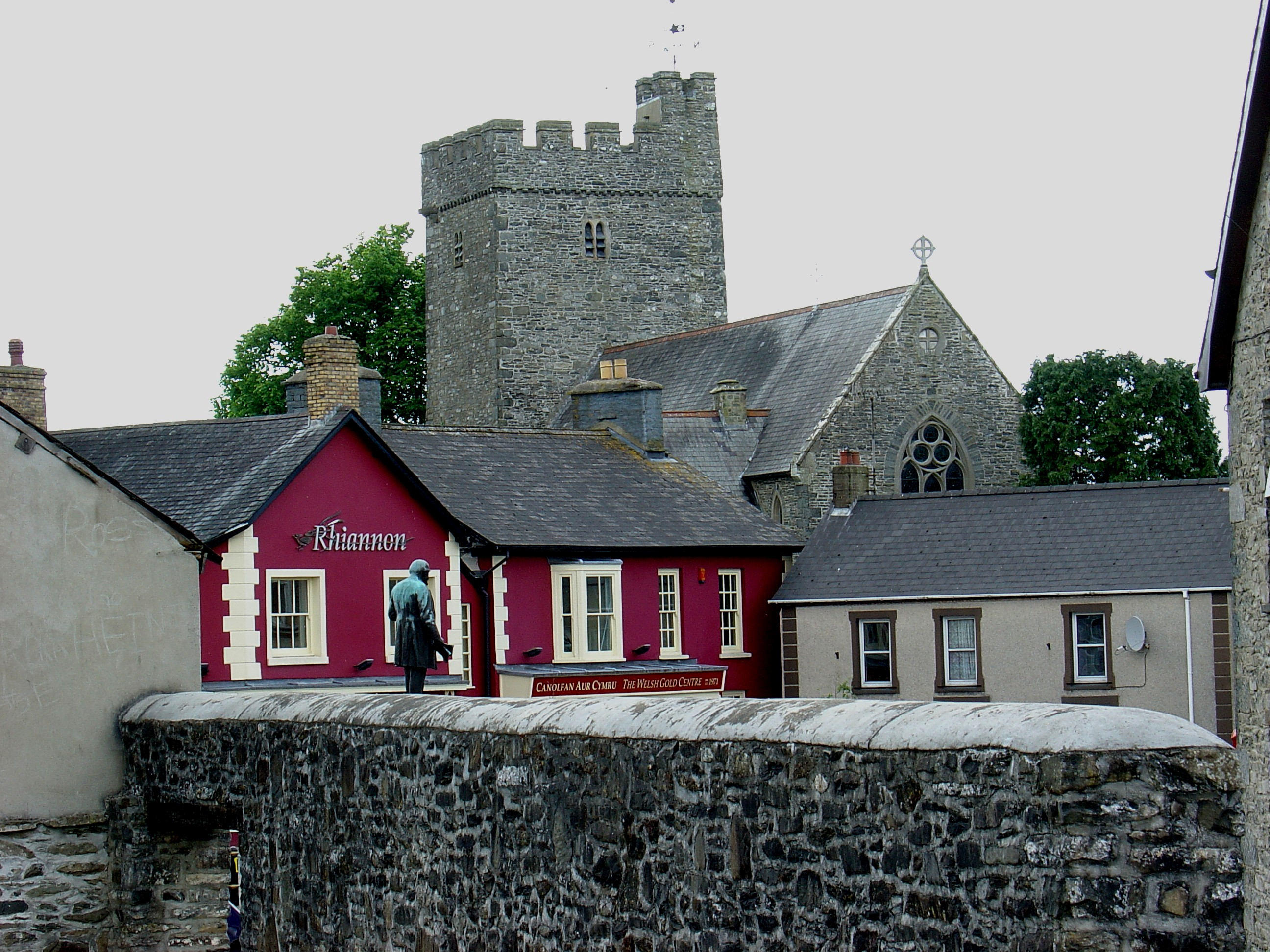 View of St Caron's Anglican parish church at Tregaron, from behind the Talbot Hotel